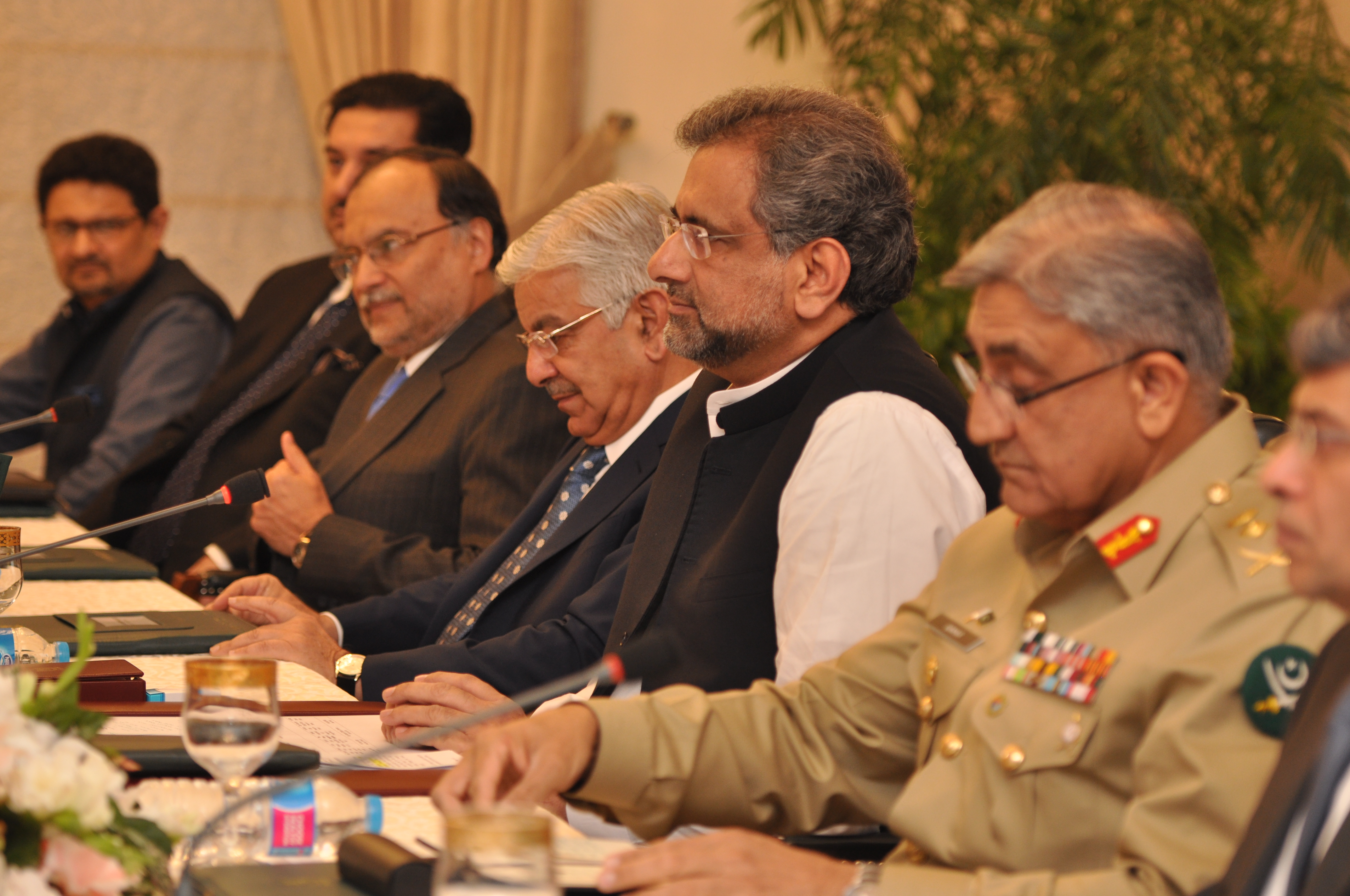 Pakistani Prime Minister Shahid Khaqan Abbasi and the Pakistani Government of Representatives participate in a bilateral meeting with U.S. Secretary of State Rex Tillerson and his delegation at the Prime Minister's House in Islamabad, Pakistan on October 24, 2017. [State Department Photo/ Public Domain]